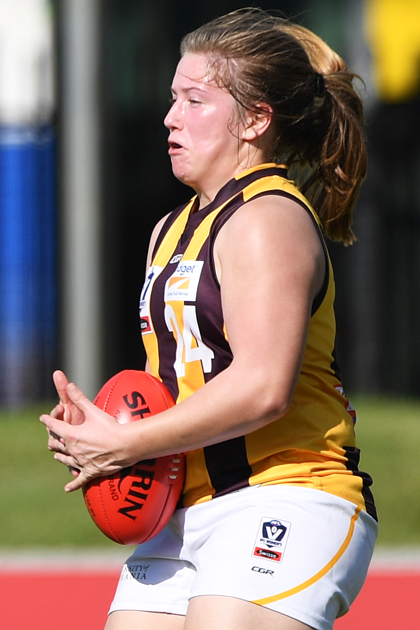 Rosie Dillon of Hawthorn during the 2018 VFLW round 15 match between NT Thunder and Hawtorn at TIO Stadium on Saturday, 18 August 2018 in Darwin, Australia.